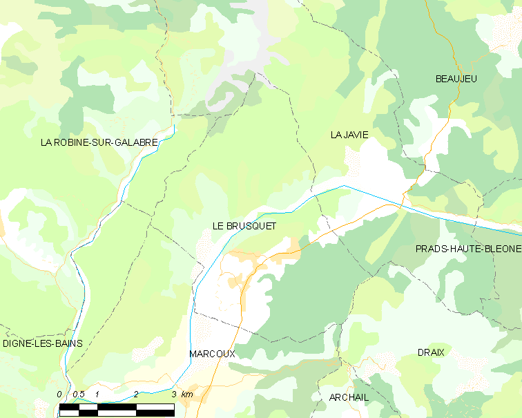 Map commune FR insee code 04036.png Légende